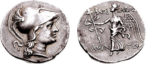 A Galatian coin depicting Amyntas, King of Galatia 36-25 BC